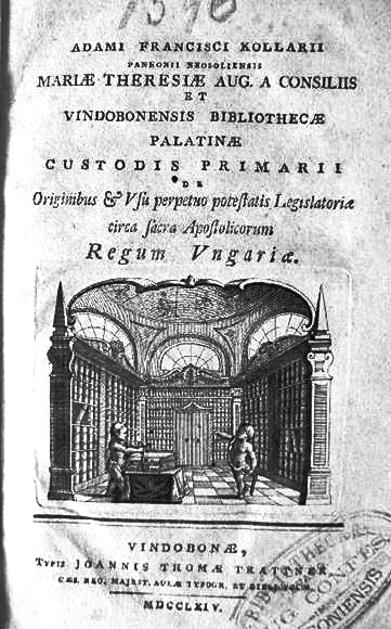 Front page, book by A. F. Kollar, 1764